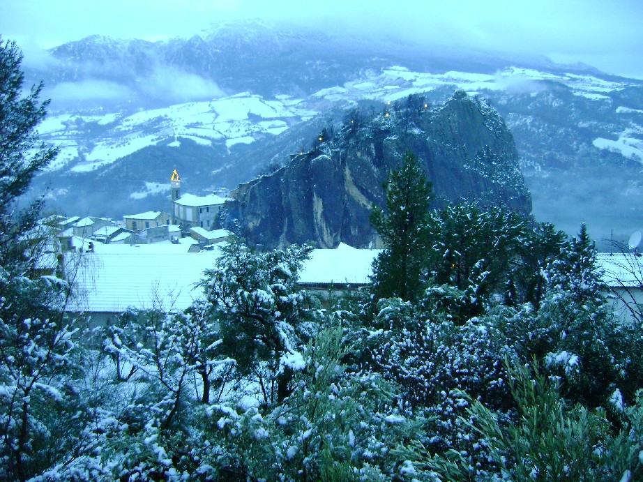 The rock of Pietraferrazzana